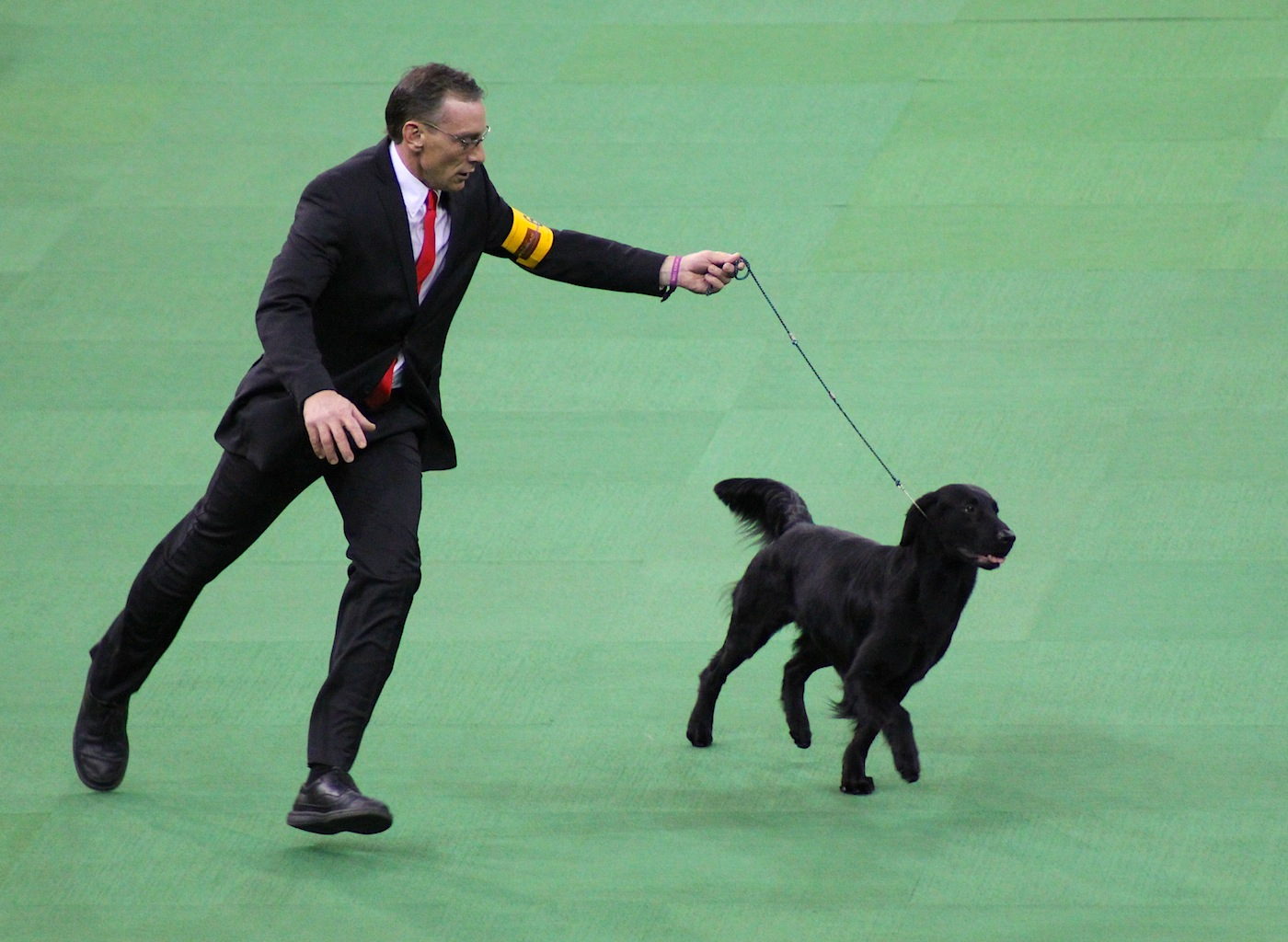 TERMS OF USE: You must link directly to our website, rather than Flickr if you use this photo. Thanks for your cooperation. 2014 Westminster Kennel Club Dog Show, New York City.